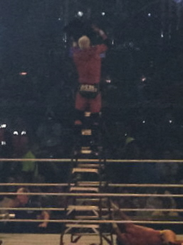 Mr. Kennedy grabs the briefcase to win the Money in the Bank Match at WrestleMania 23. (Cropped from flickr)